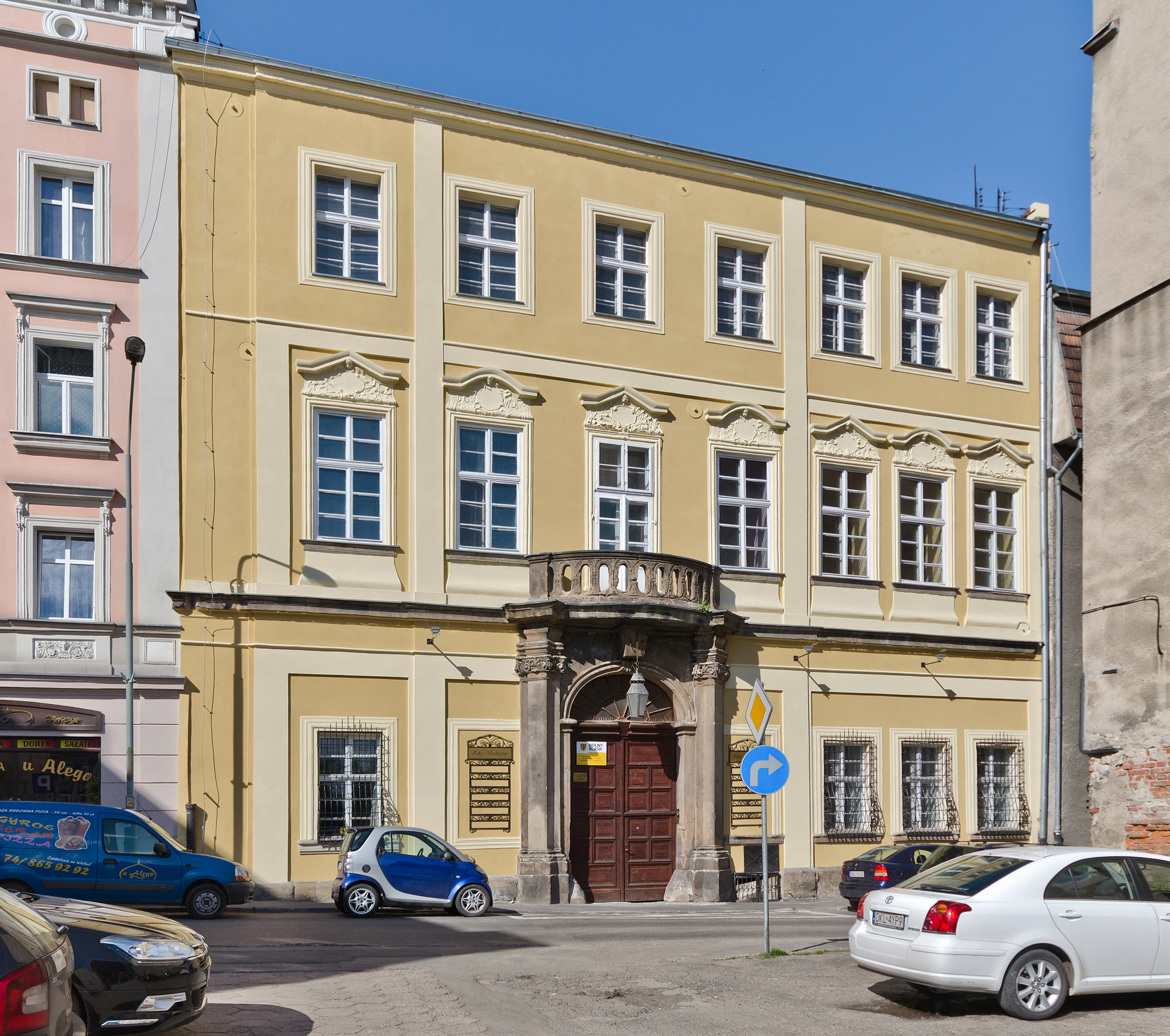 30 Czeska Street in Kłodzko